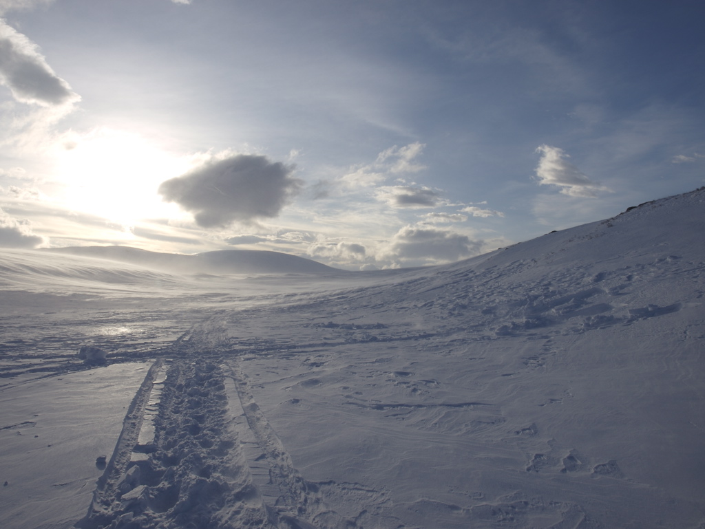 Tracks of skis in snow in the Sarek Nationalpark in winter